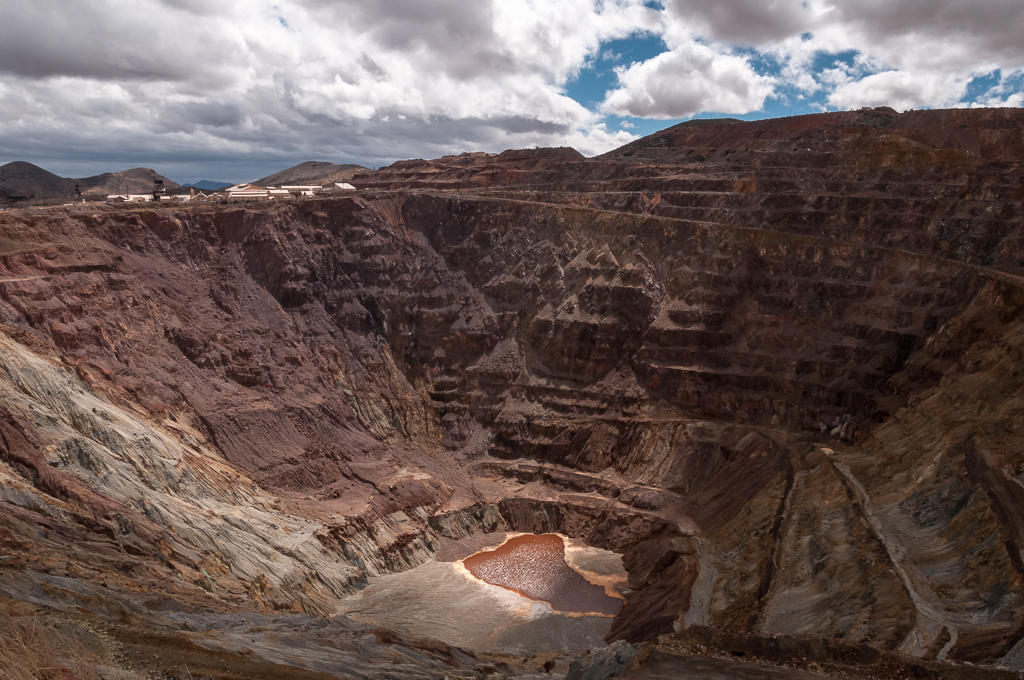 View of the Lavender Pit in Bisbee, Arizona.